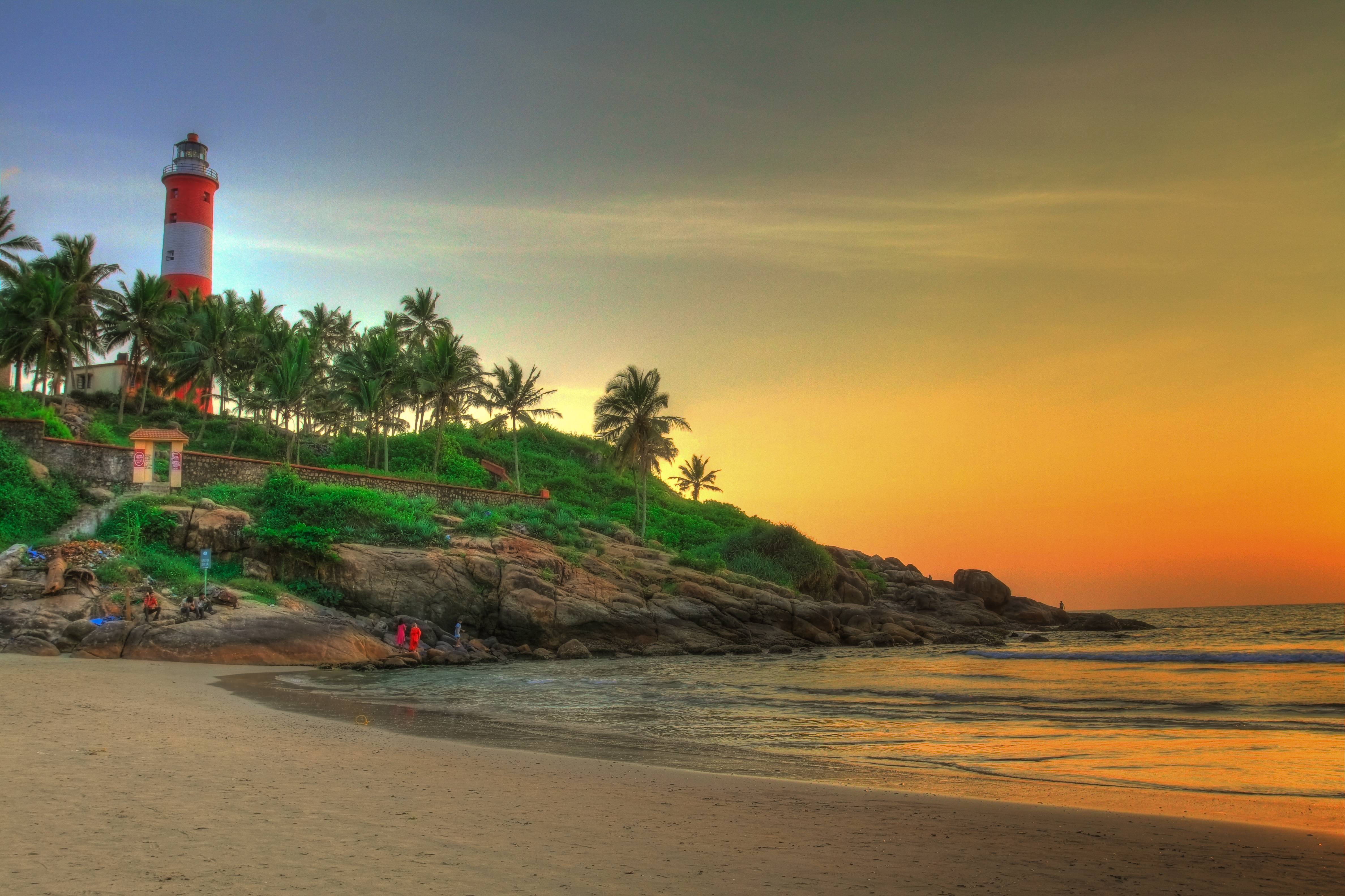 One of the most beautiful and cleanest beaches in India. This photograph was not intended to be created as HDR image but I realized that the light and colors in this will makes it HDR worthy. I hope you guys like it.